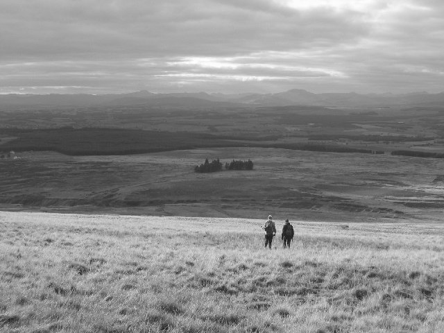 Sherrifmuir, from Glentye Hill. Descent from the Ochils overlooking a flat Sherriff Muir.